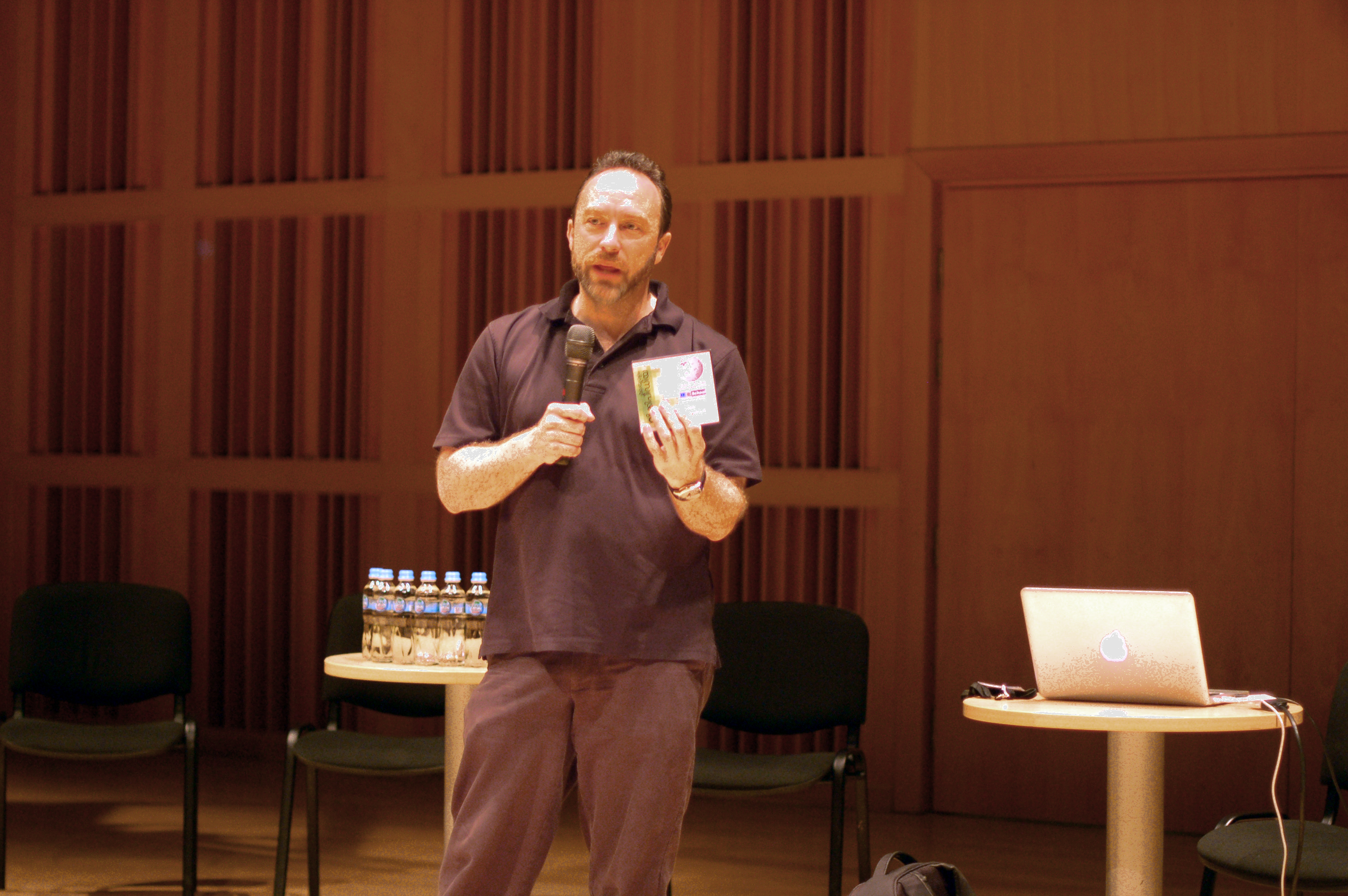 Jimmy Wales introduces the Offline Version of Malayalam Wikipedia CD of selected 500 article during Wikimania Gdansk 2010. This was the first offline version in any Non-Latin Languages in world.